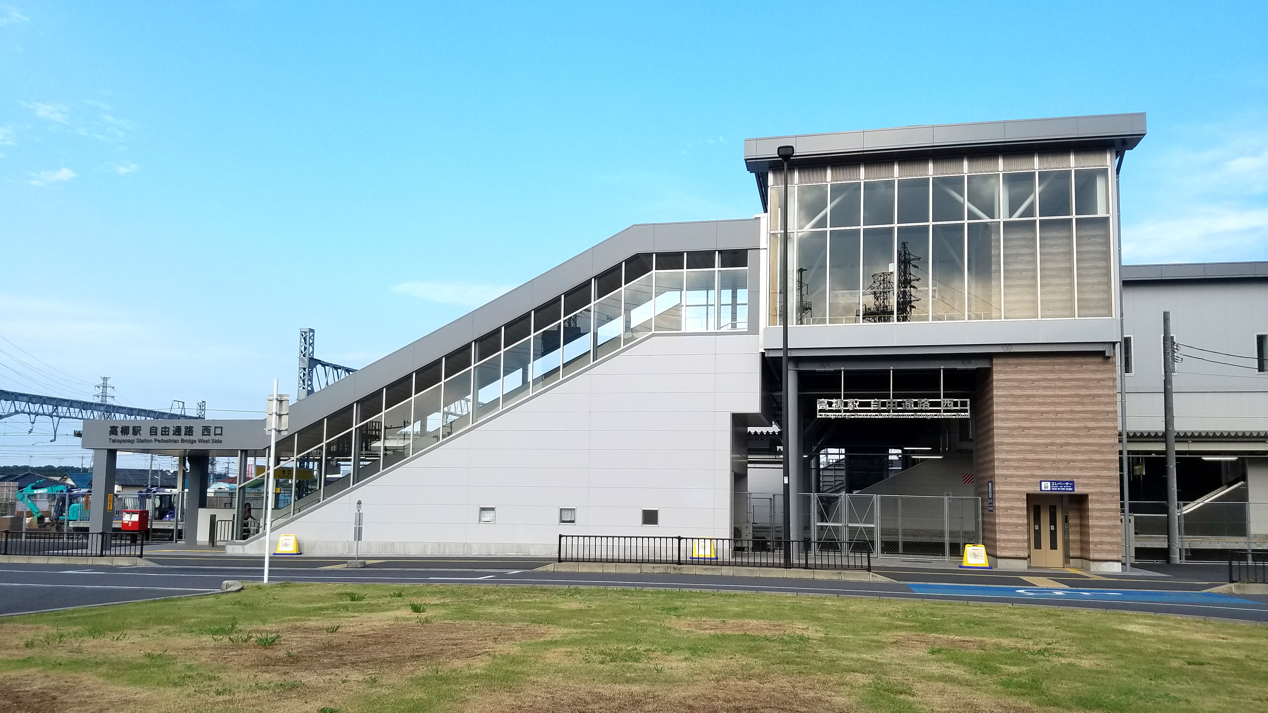 The west-side entrance to Takayanagi Station on the Tōbu Noda Line(Tōbu Urban Park Line) in Kashiwa city, Chiba prefecture, Japan